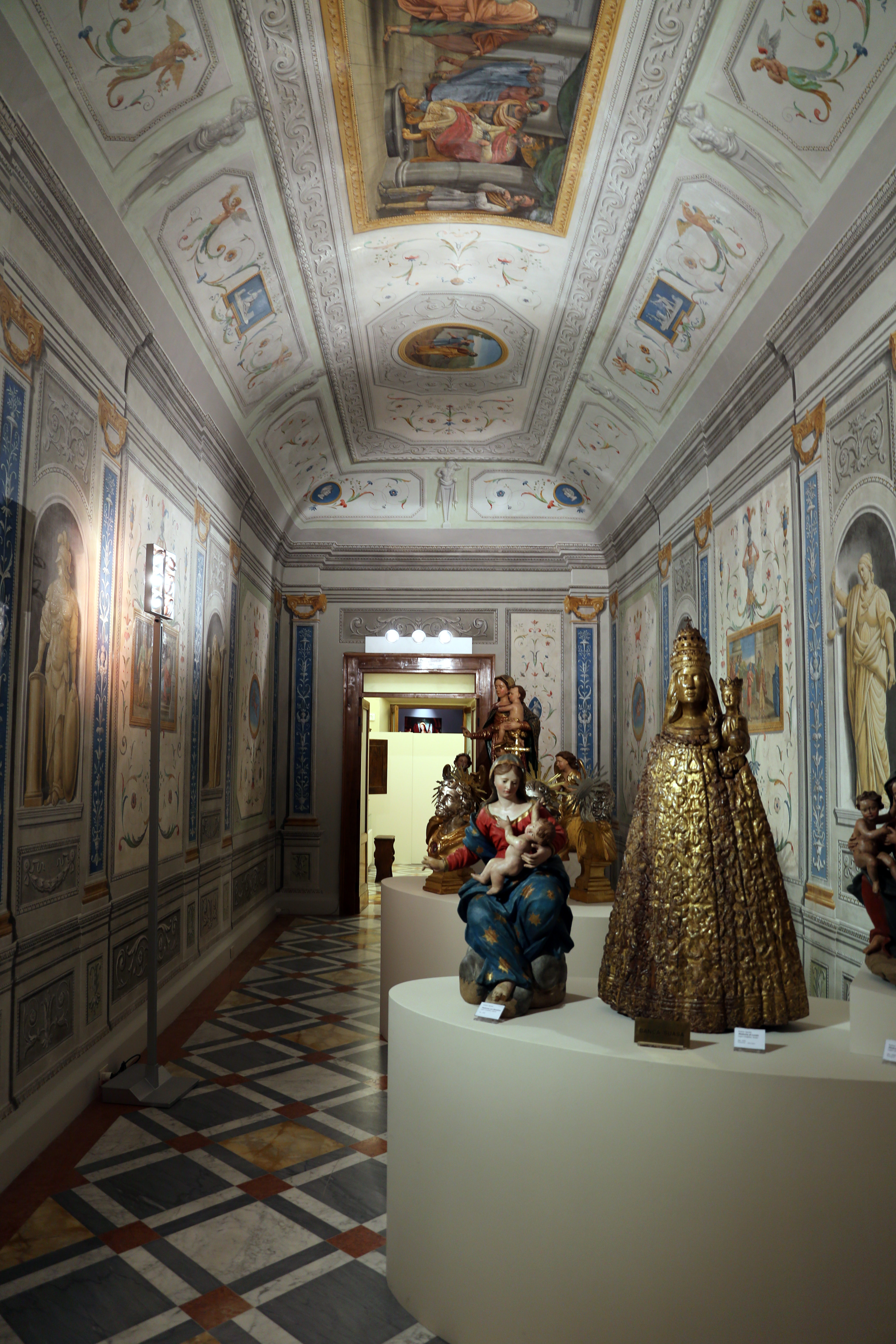 Pinacoteca Diocesana (Senigallia)